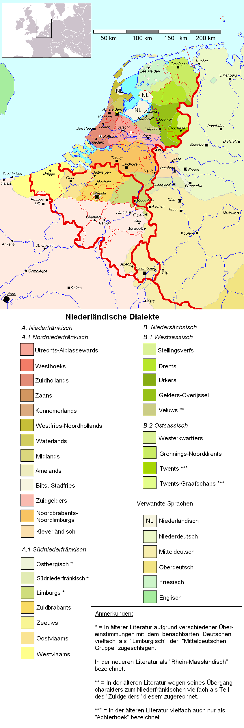 Map of Dutch dialects